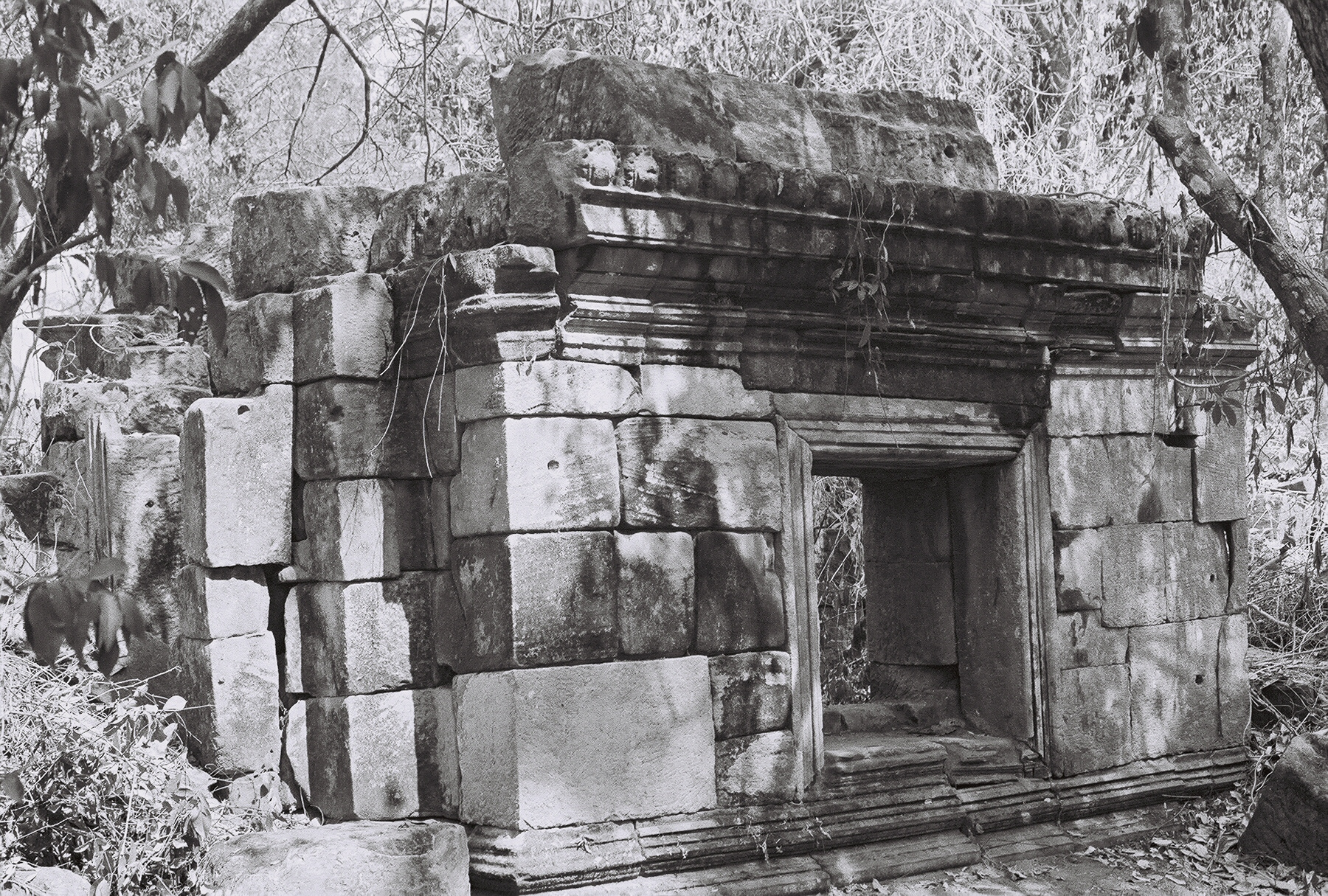 Northeastern library of Sdok Kok Thom temple, Thailand